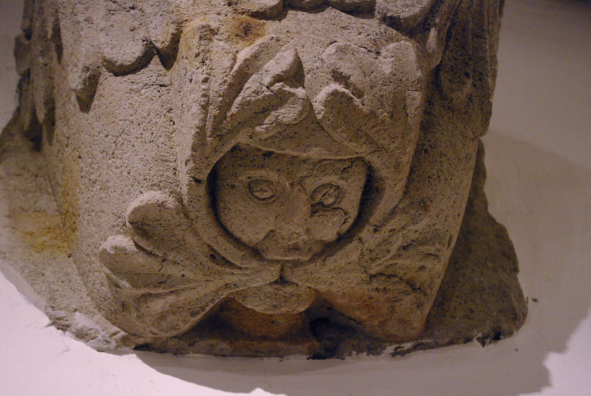 Sculpture from the monastery of Gudhem in Sweden.